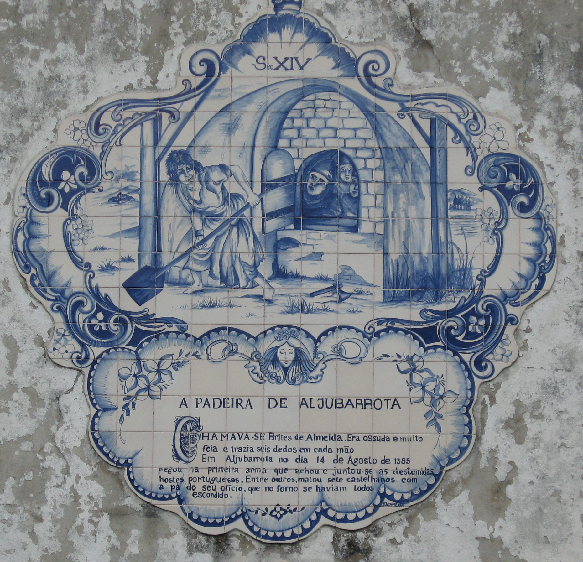 Aljubarrota, Portugal, Coutos de Alcobaça, Lady Baker of Aljubarrota, public portrayal with azulejos of her story, Aljubarrota, square of the memorial of the baker